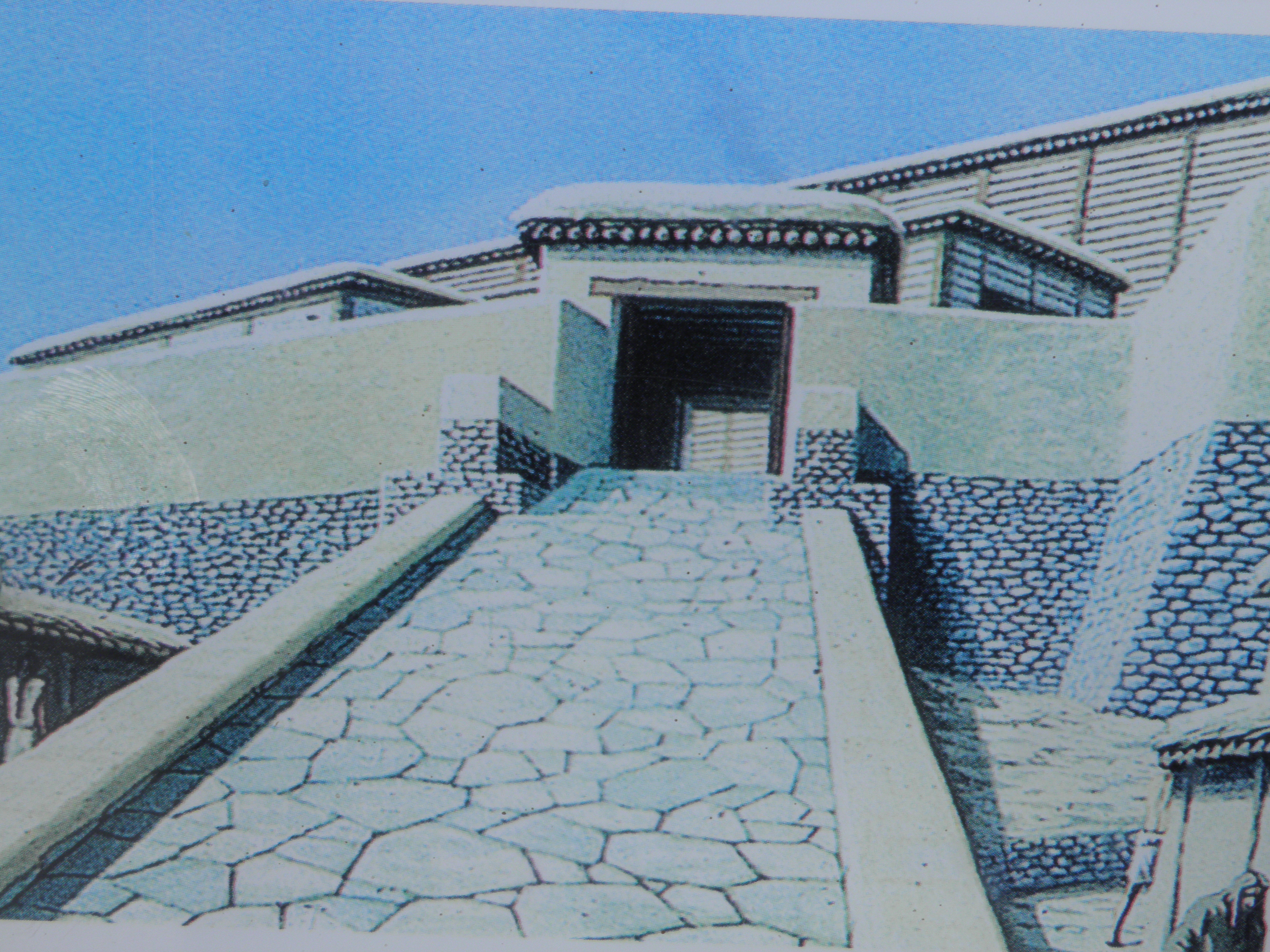 Troy (Ilion), Turkey